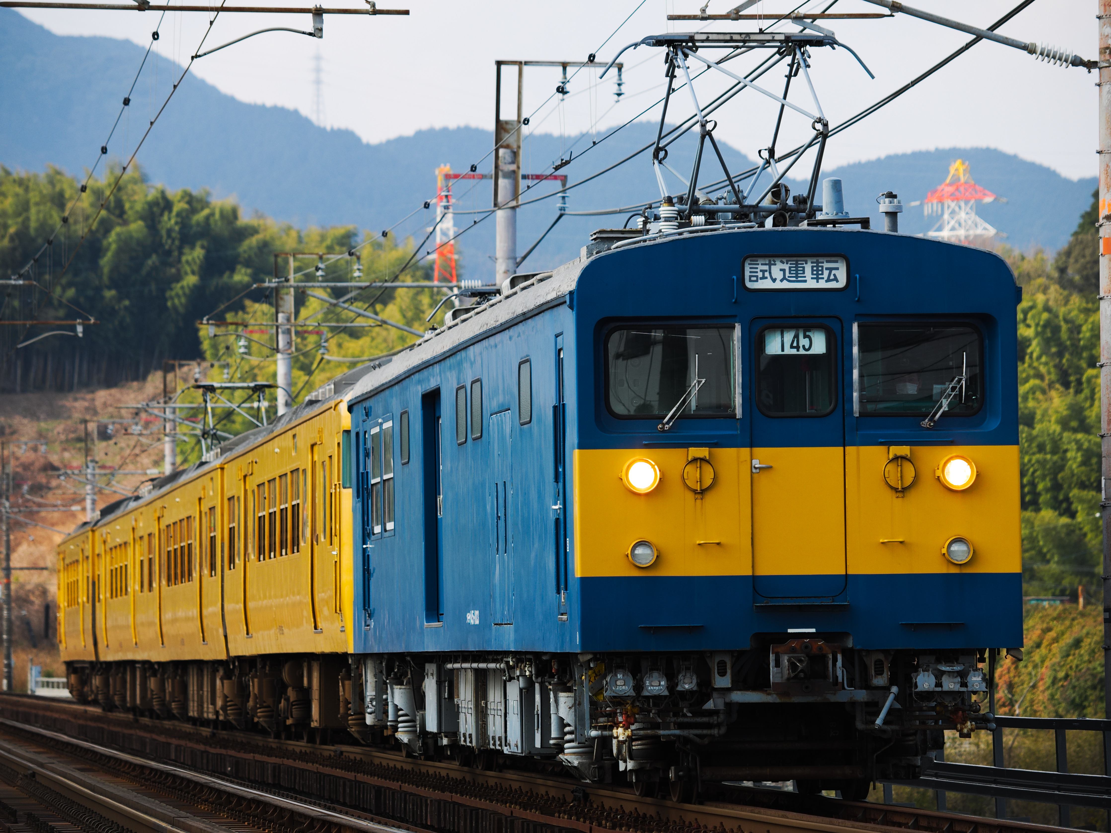 JR West 145 series EMU tractor unit KuMoYa 145 1103 hauling 115 series EMU set N-06 on a test run on the Sanyo Main Line in Shimonoseki, Yamaguchi Prefecture, Japan